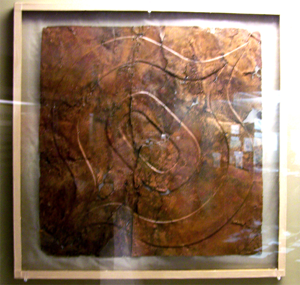 A repoussé copper plate from the Etowah site with an ogee motif.